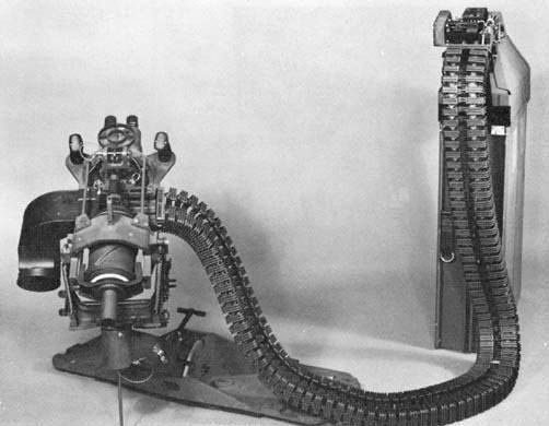 XM94 Helicopter armament subsystem